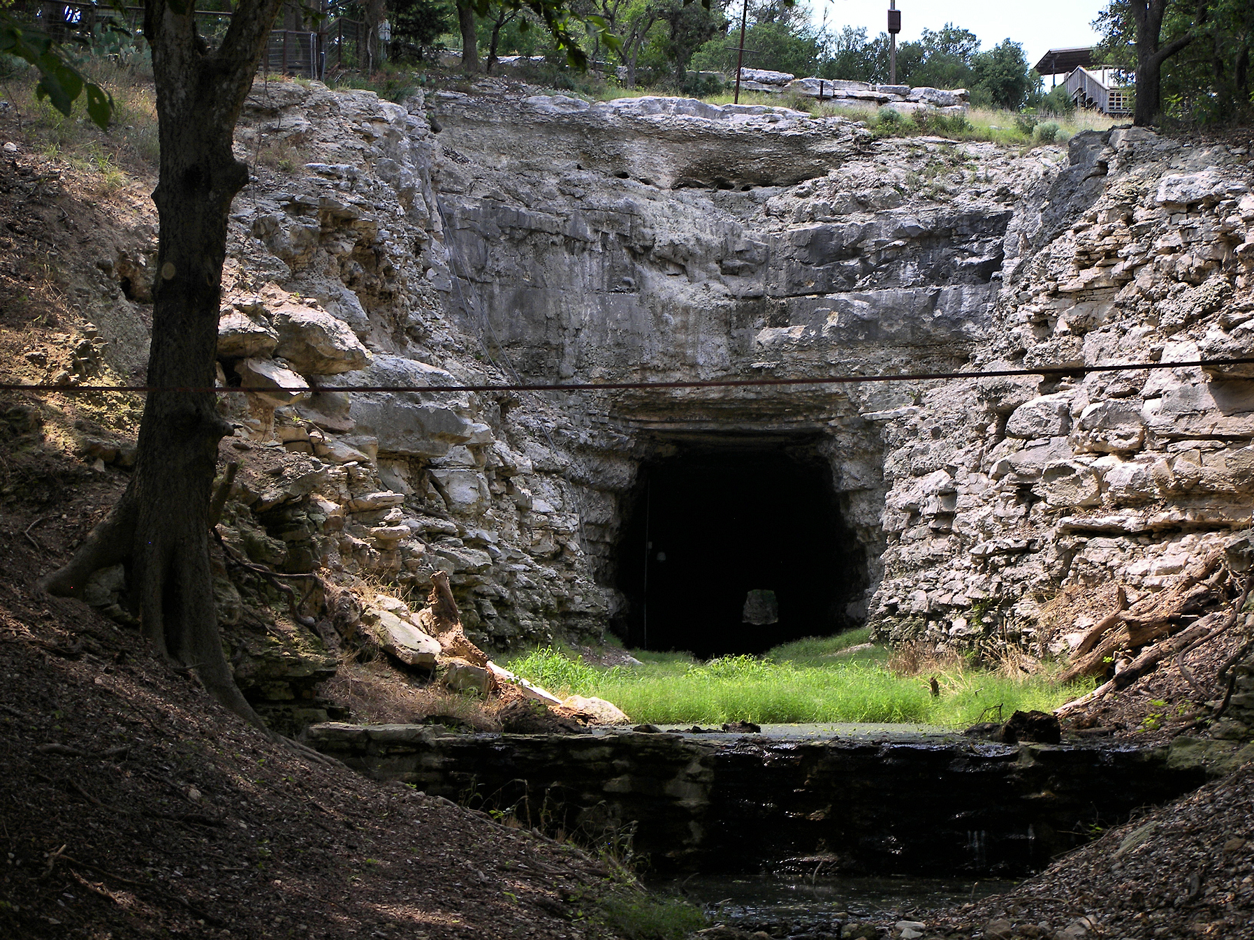 The tunnel in Old Tunnel State Park, Kendall County, Texas, United States. Formerly a railroad tunnel for the Fredericksburg and Northern Railway, the tunnel is now home to up to three million Mexican free-tailed bats (Tadarida brasiliensis) and 3,000 cave myotis (Myotis velifer) from May through October.